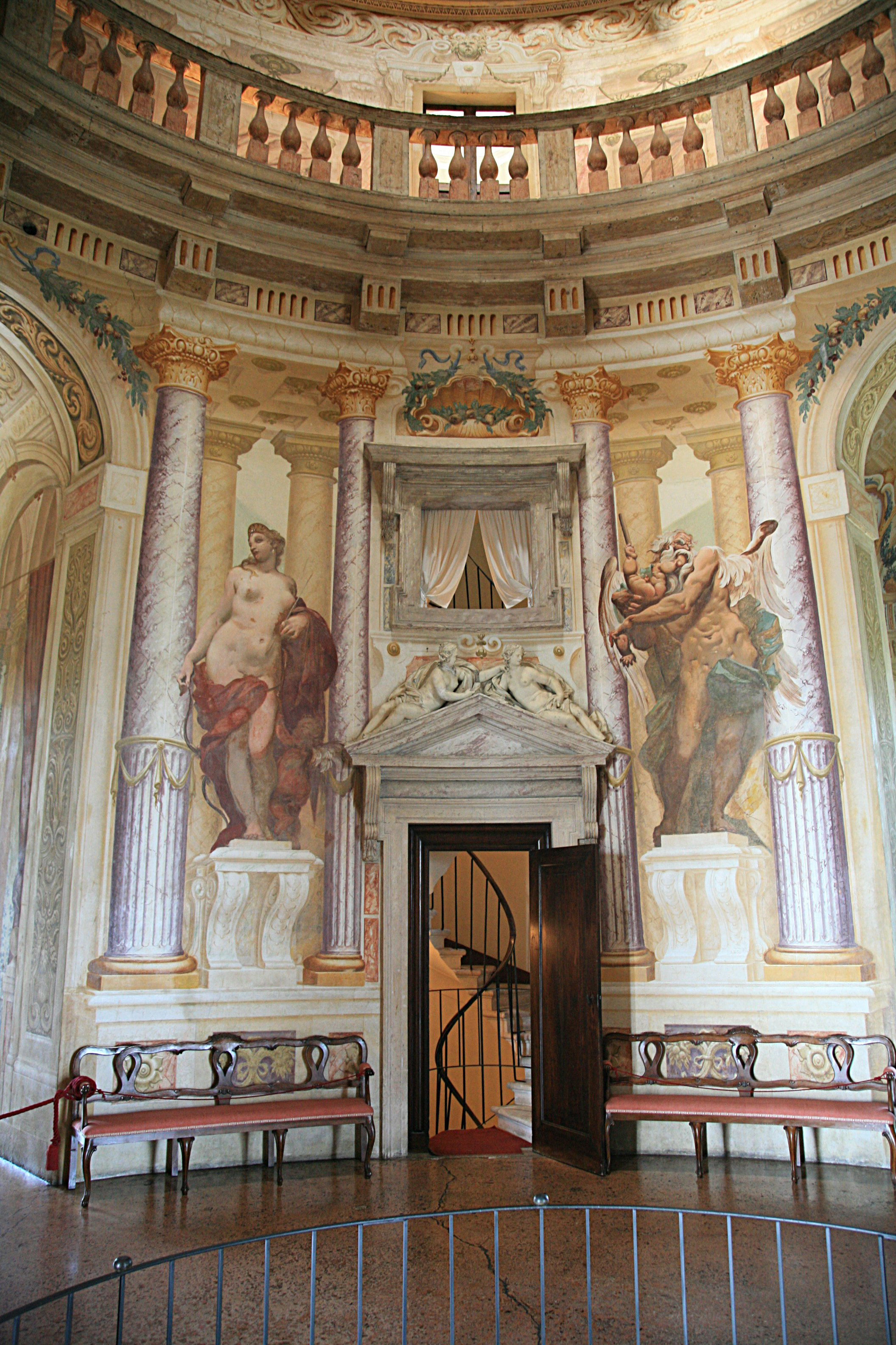 Interior from La Rotunda by Andrea Palladio